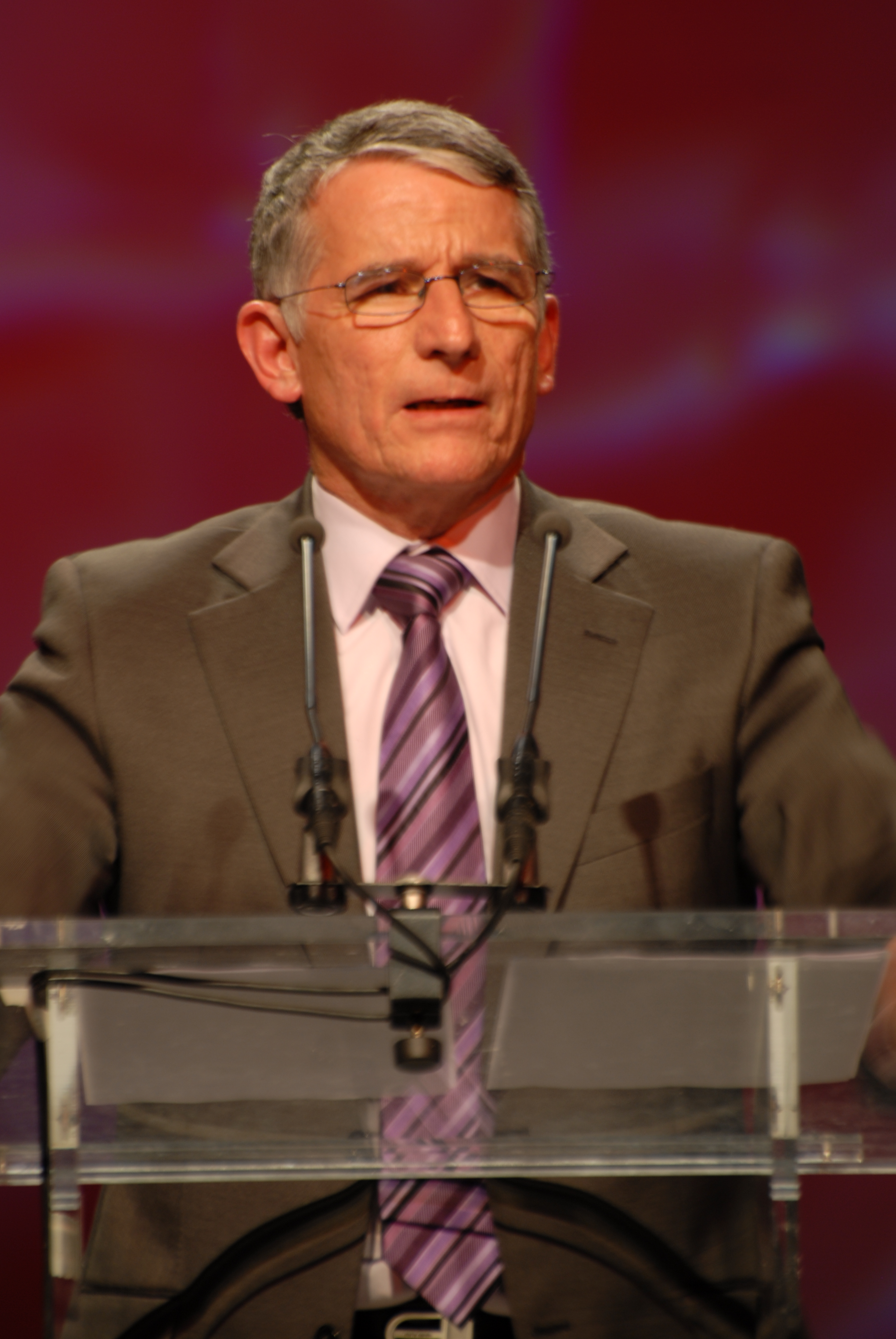 French politician Pierre Cohen at his rally for the French town elections in Toulouse, 2008.